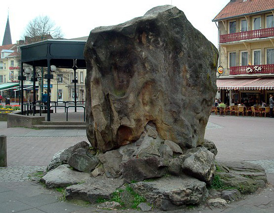 Valkenburg aan de Geul, the Netherlands. View of Theodoor Dorrenplein, the heart of the town's shopping district. In the foreground a large boulder, called Dieke Sjtein (Fat Rock).